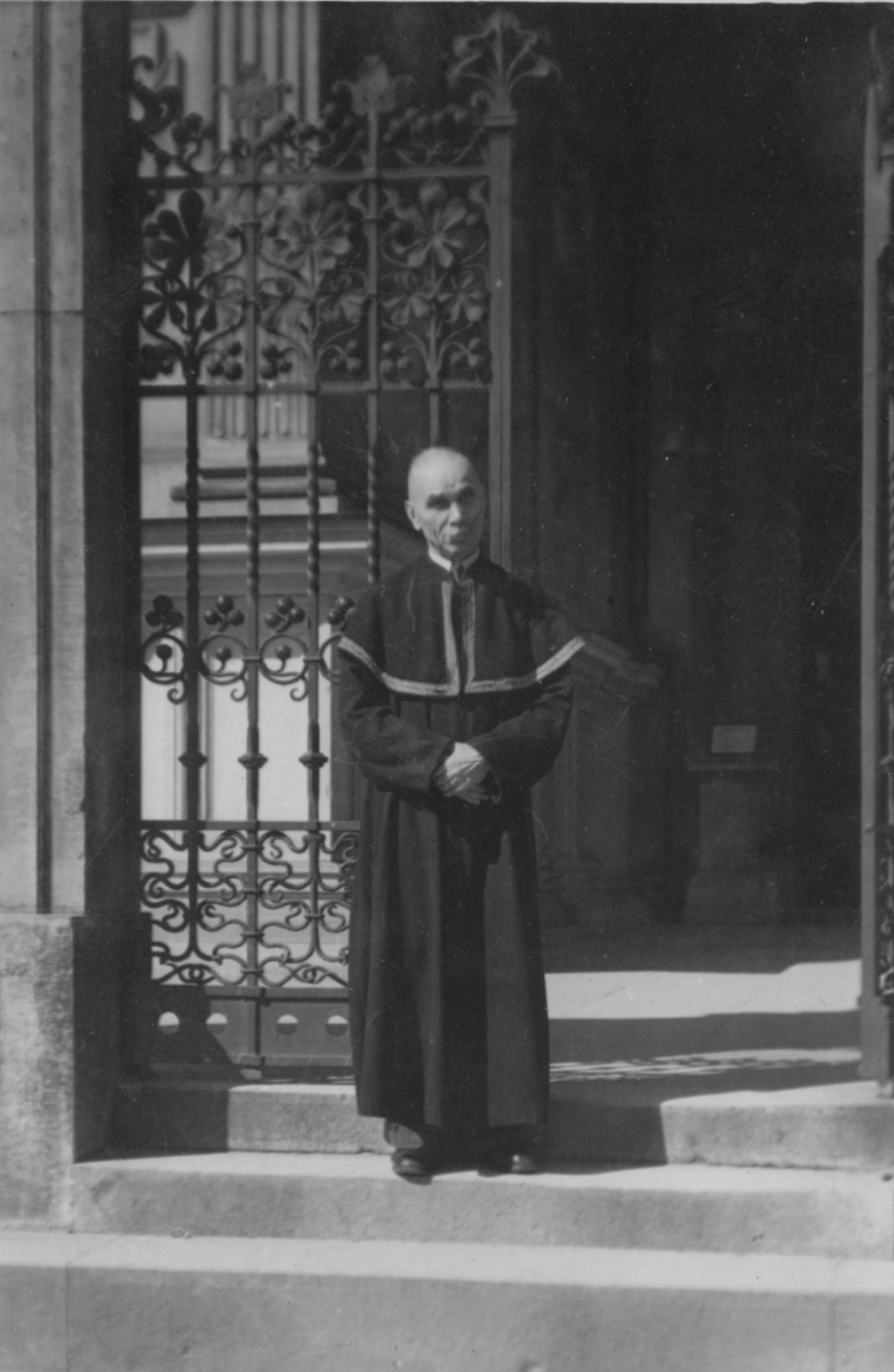 Wojciech Walas